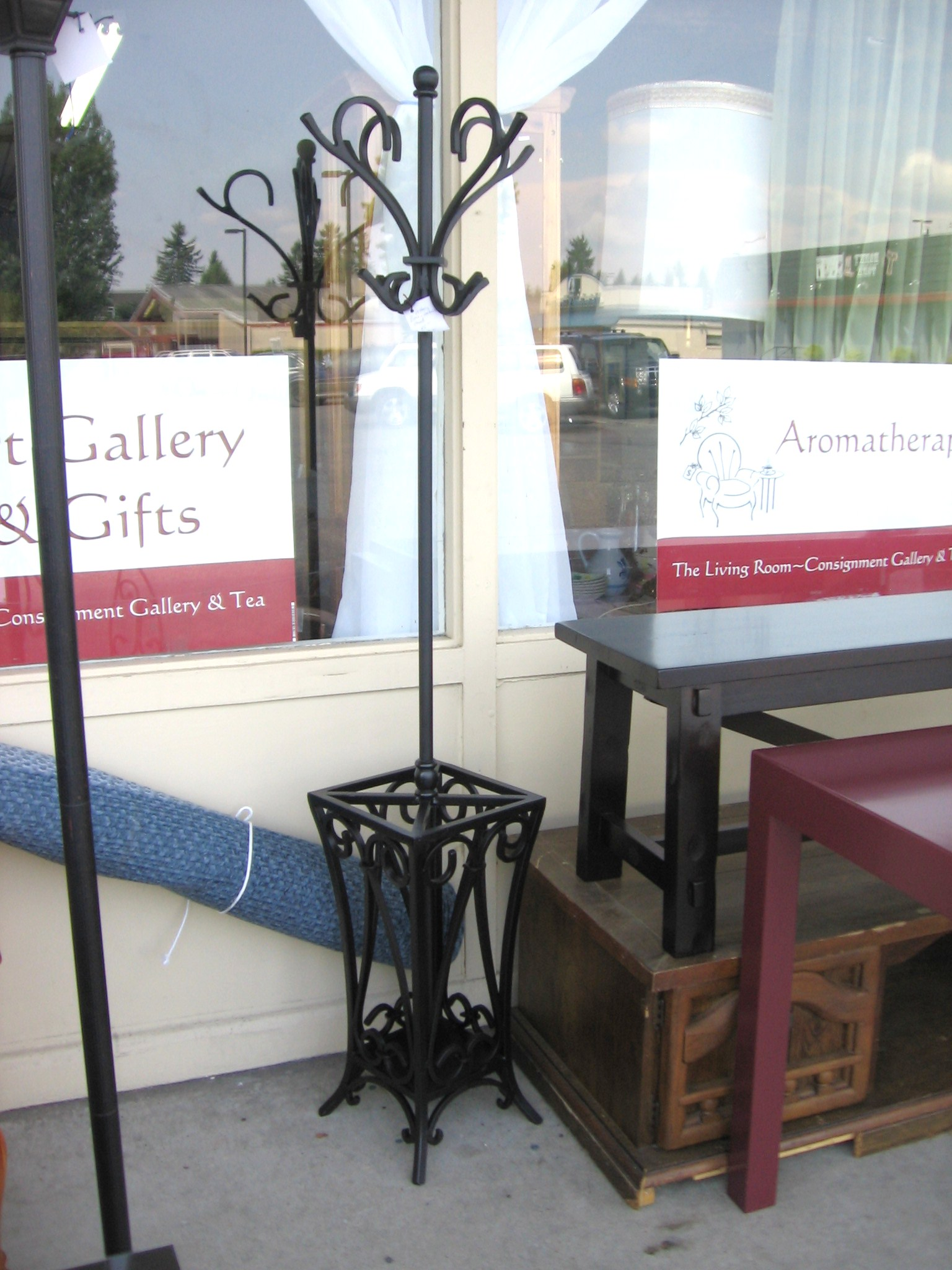 The Living Room ~ Consignment Gallery & Tea ~ 6524 NE 181st, Suite 10, Kenmore, WA 98028 425-877-1074 Open Tuesday-Saturday, Closed Sunday-Monday